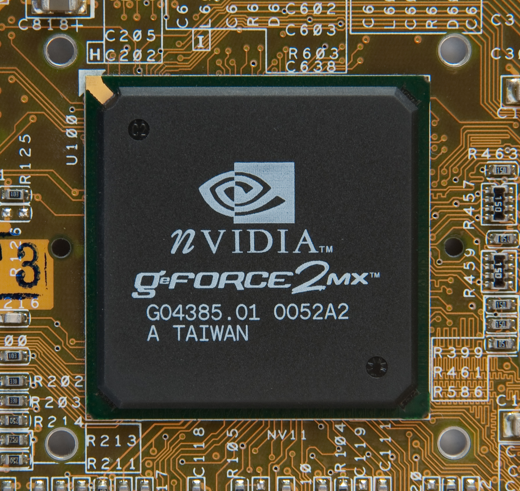 Nvidia GeForce2 MX GPU